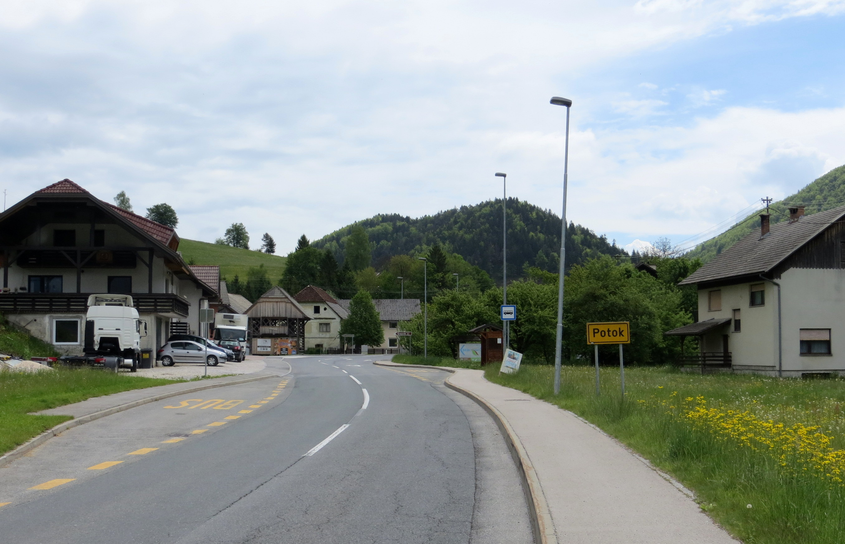 Potok, Municipality of Kamnik, Slovenia